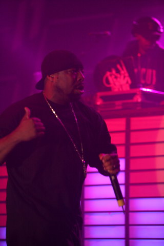 WC on Concert